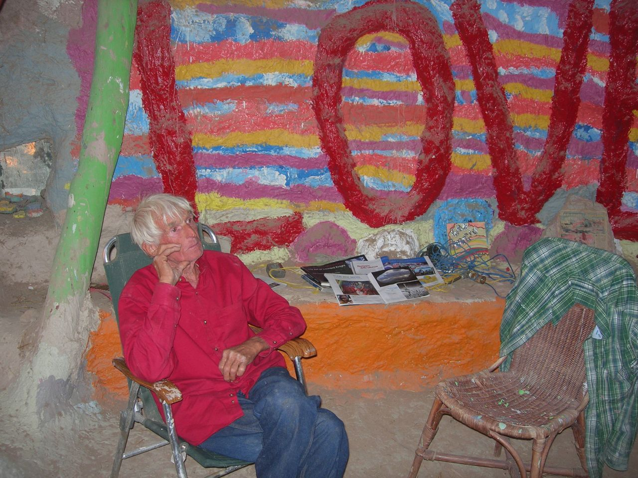 Leonard, the proprietor and designer